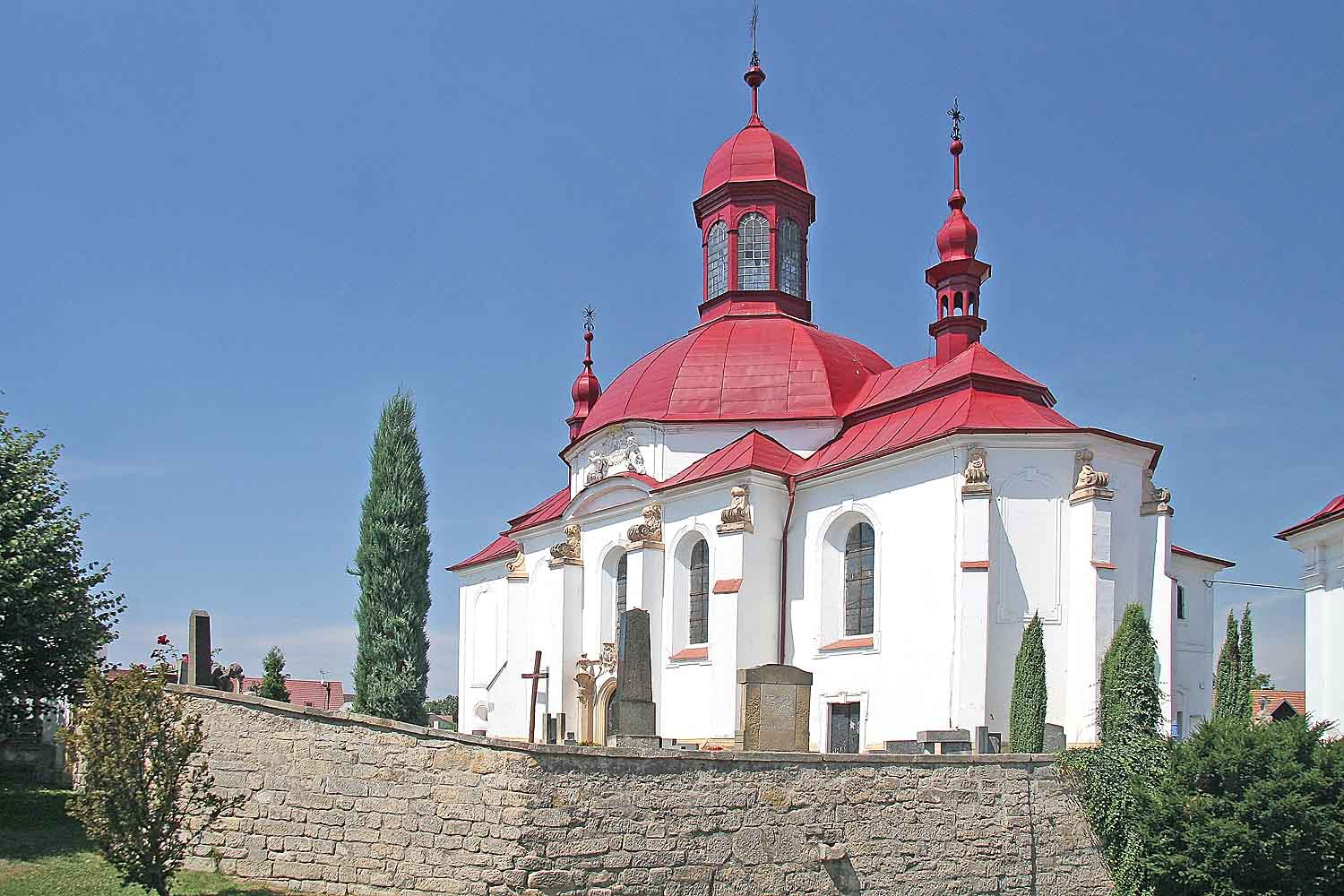 Church of the Assumption in Slatiny, Jičín District, Czech Republic autor: Prazak date: 20. 7. 2006 related images